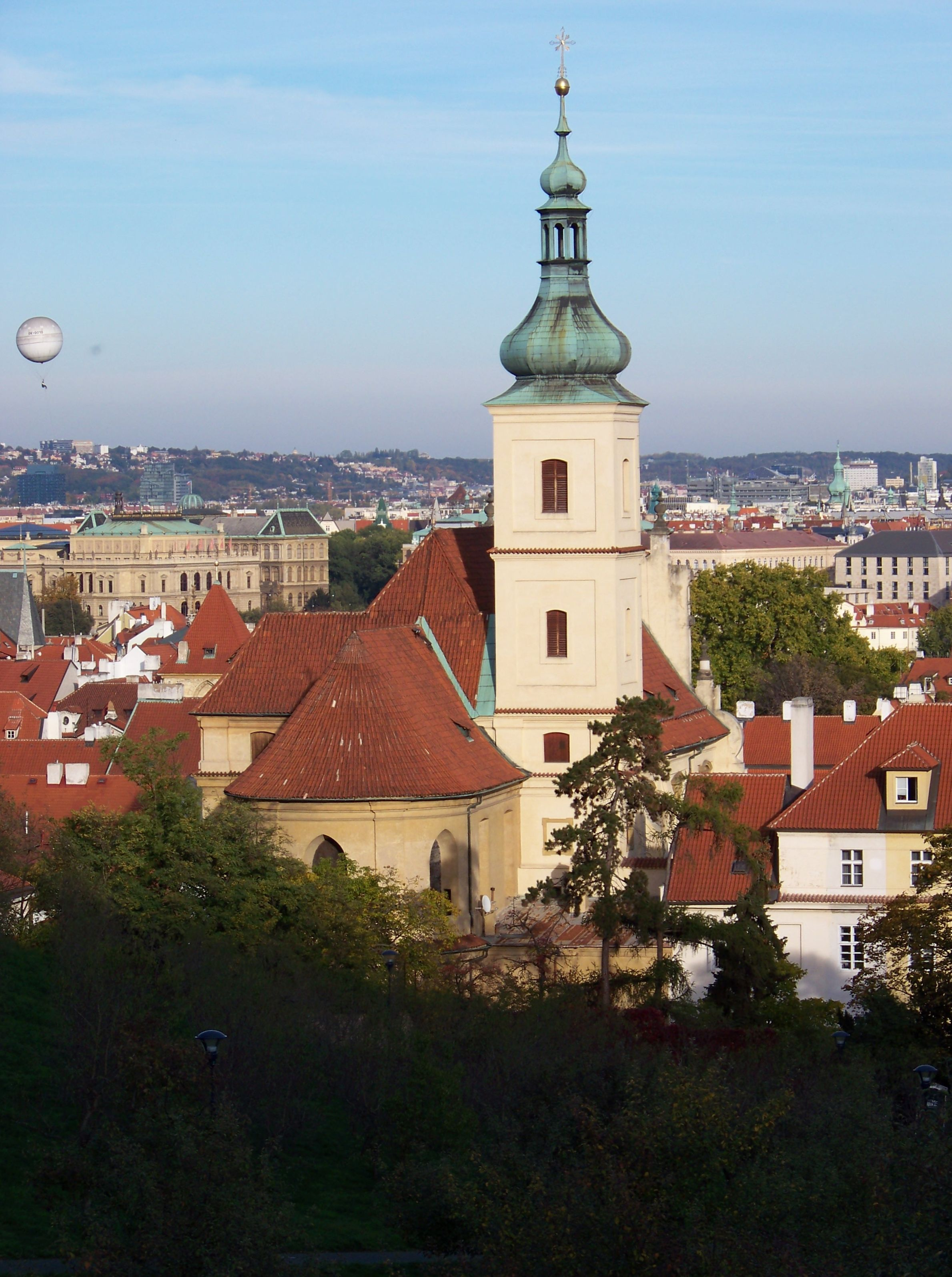 Prague-Malá Strana, the Czech Republic. A view of the church of the Virgin Mary of Victories, seen from the Seminary Garden.